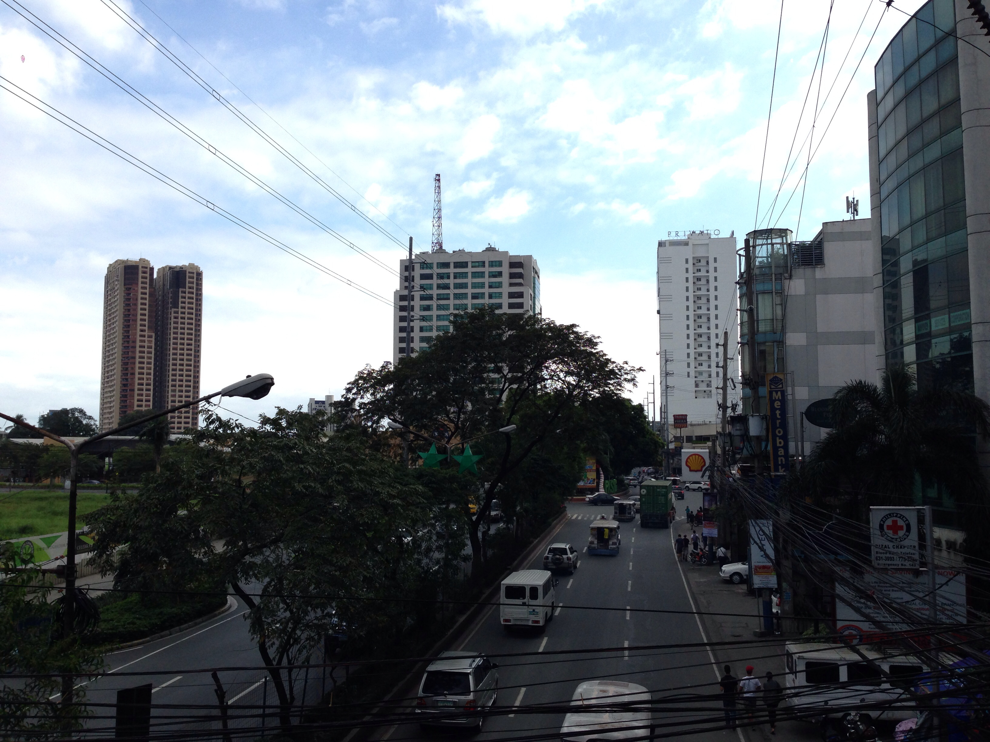 Shaw Boulevard near Capitol Commons, Ortigas Center, Kapitolyo, Pasig, Manila